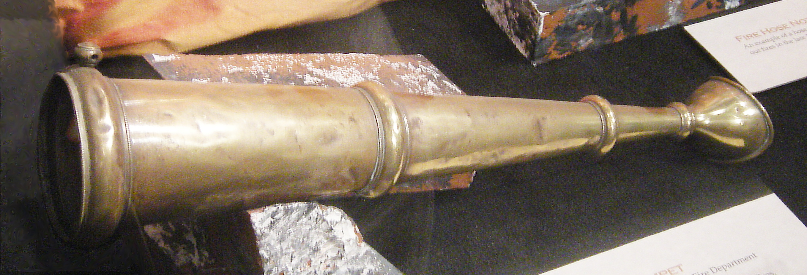 Firefighter's speaking trumpet, circa 1880s.